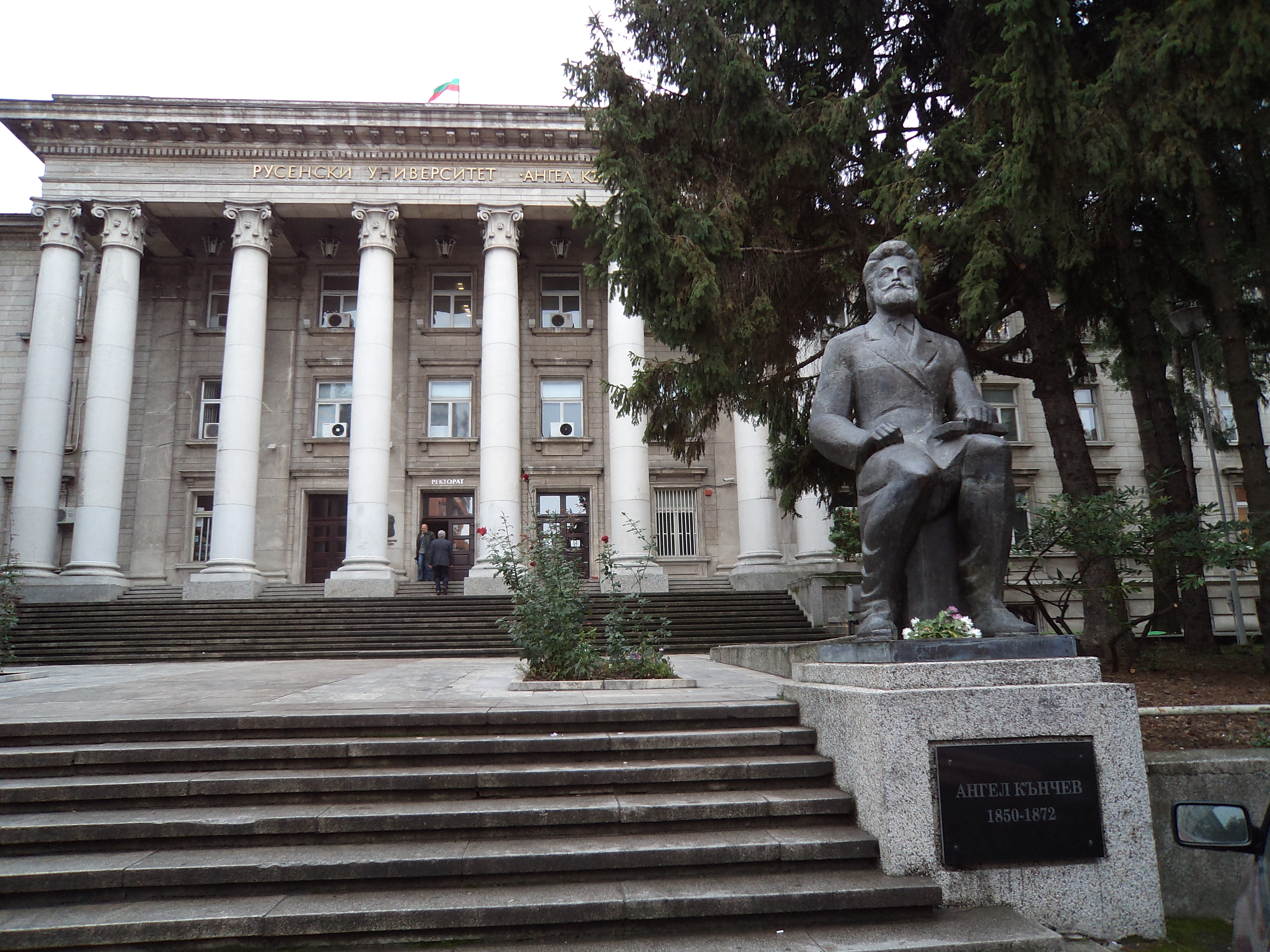 Rousse University, Central Building - Monument of Angel Kanchev